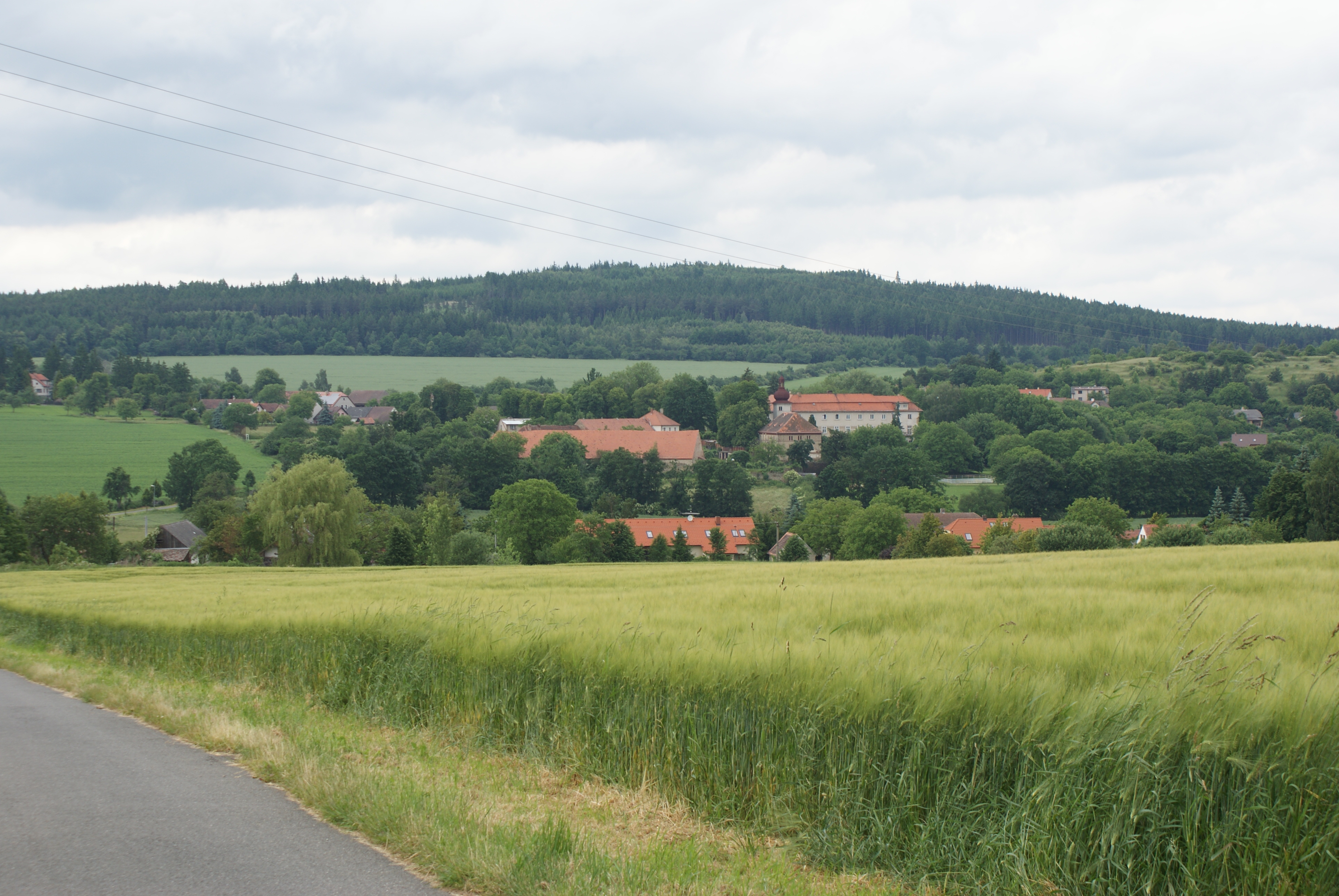 Sedlečko, a village in Příbram district, Czech Republic, with the Bukovany Castle and village in the background. Česky: Sedlečko, okr. Příbram, v pozadí Bukovany se zámkem